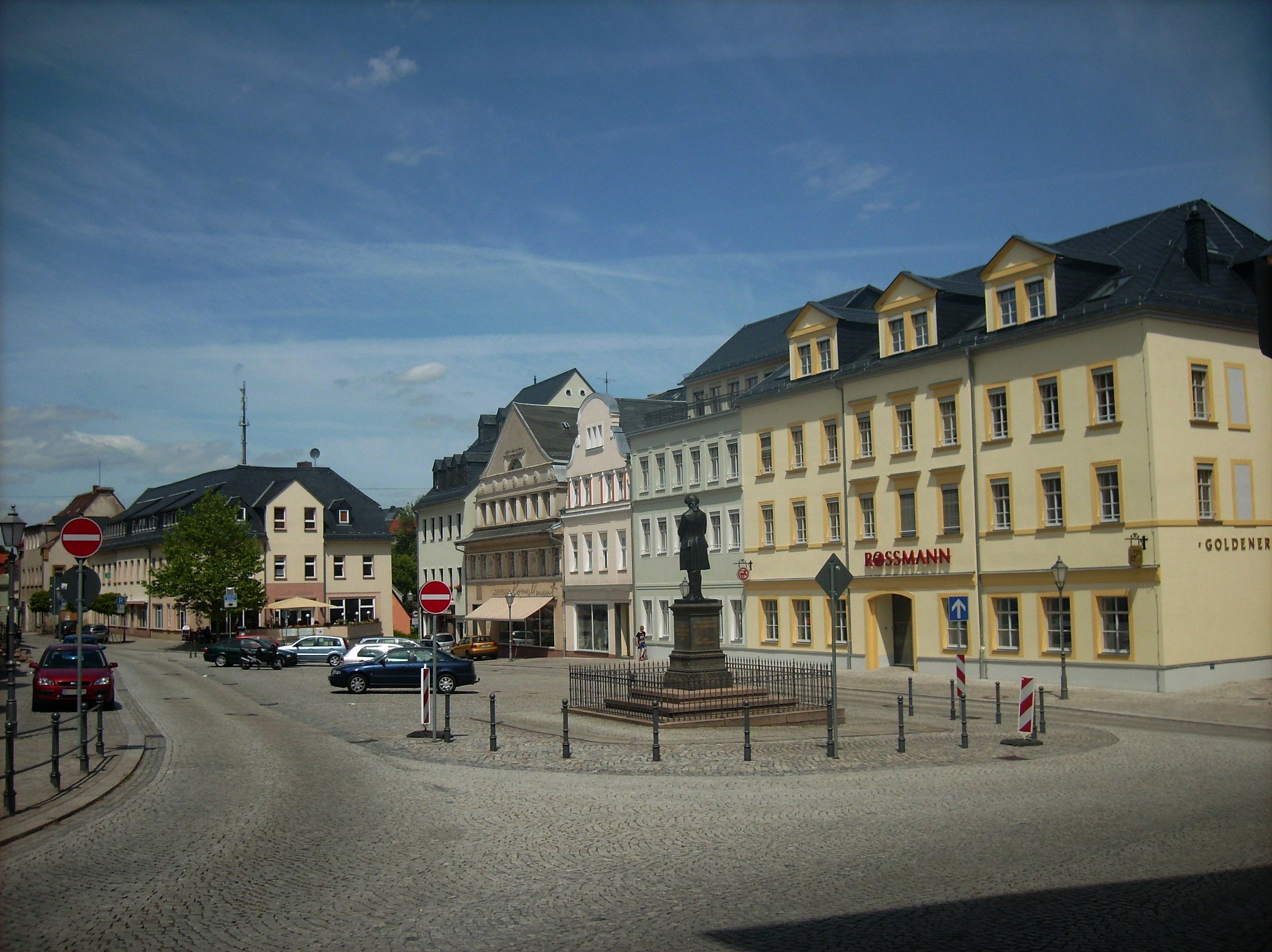 Market square in Hainichen (Mittelsachsen district, Saxony)